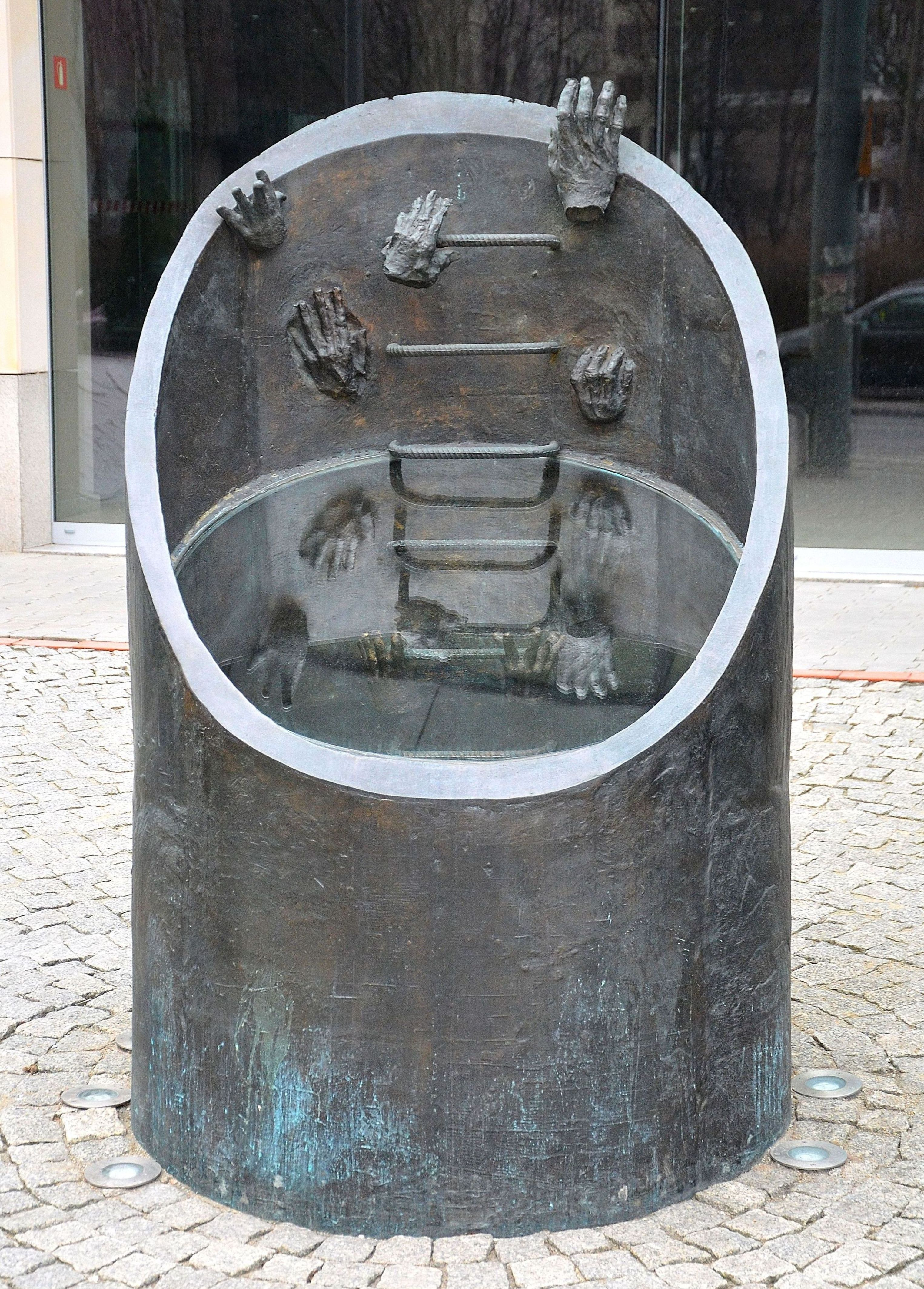 Monument to Evacuation of the Warsaw Ghetto Fighters at 51 Prosta Street in Warsaw